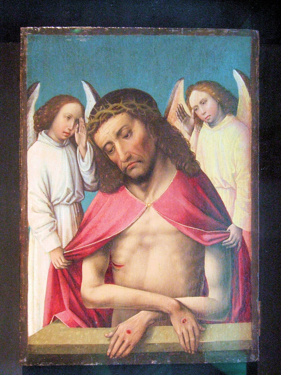 Category:Église de Brou, Bourg-en-Bresse, France - Painting at the museum